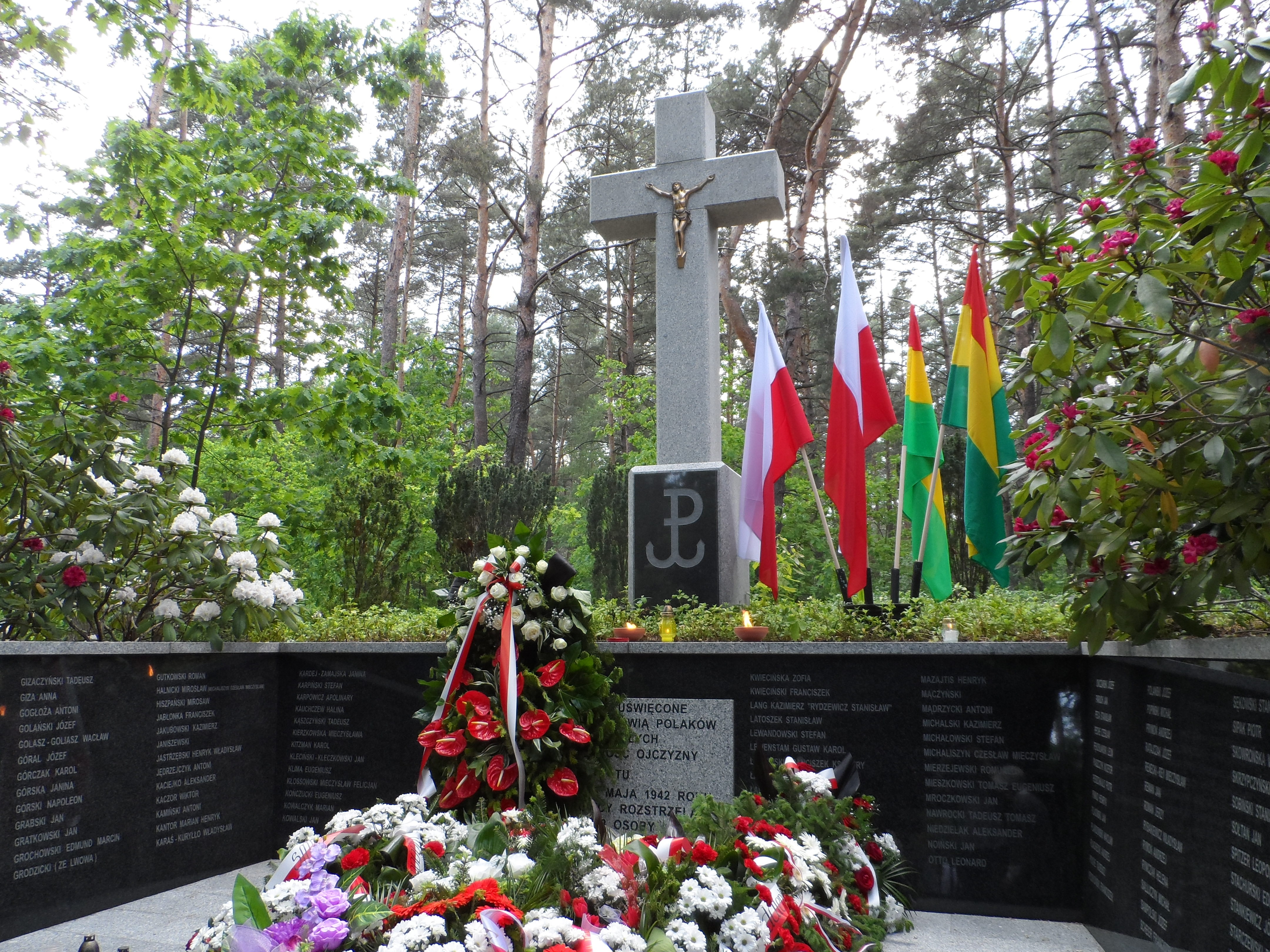 Memorial to the victims of the Nazi-German terror in Sękociński forest in Magdalenka. 223 inmates of Pawiak Prison in Warsaw were executed in this place by Nazi-German occupants on 28 May 1942. Photo taken during the celebration the 74th anniversary of the massacre.